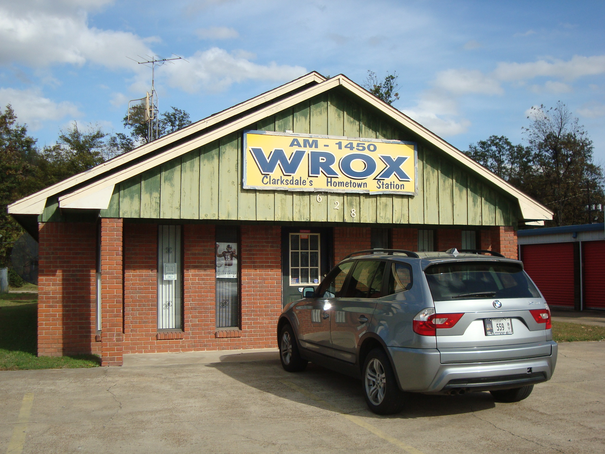 Radio Station WROX (AM)